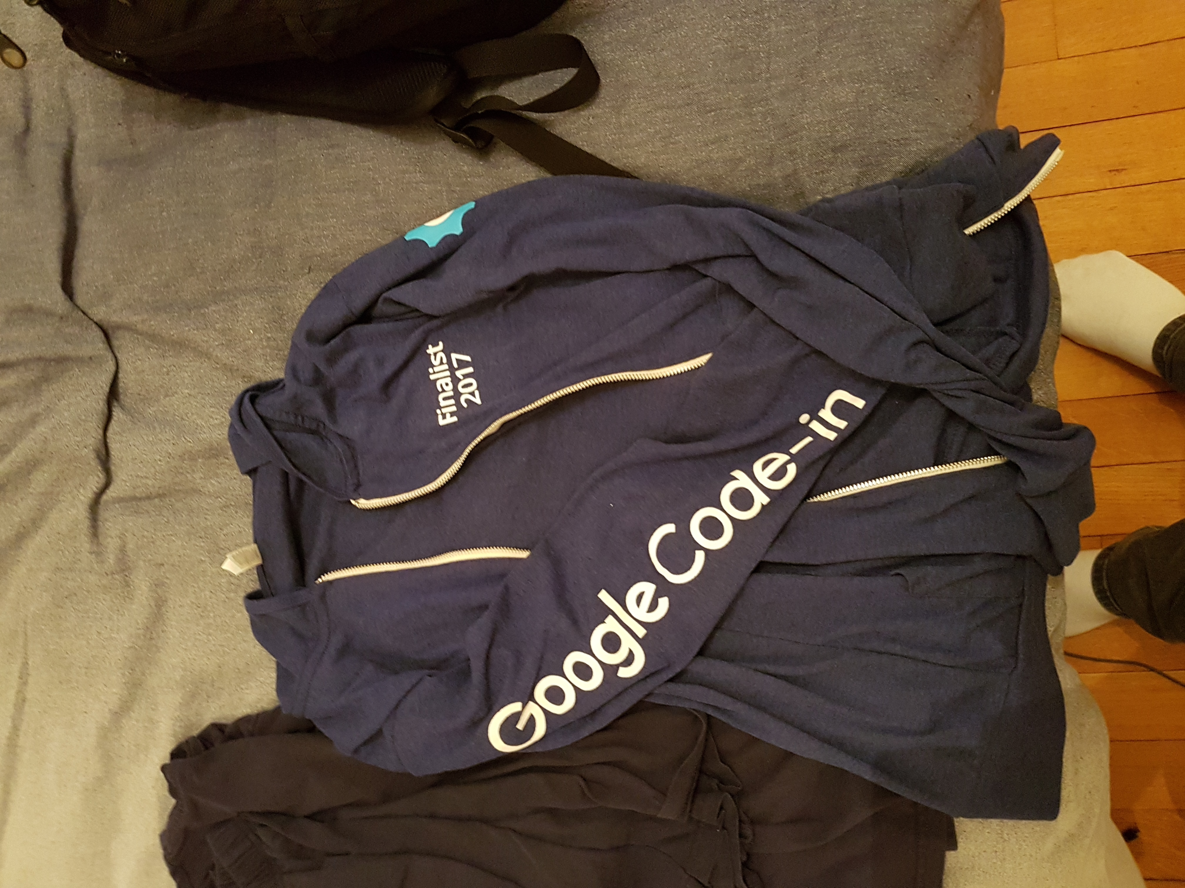 this is adrien zier's finalist hoodie